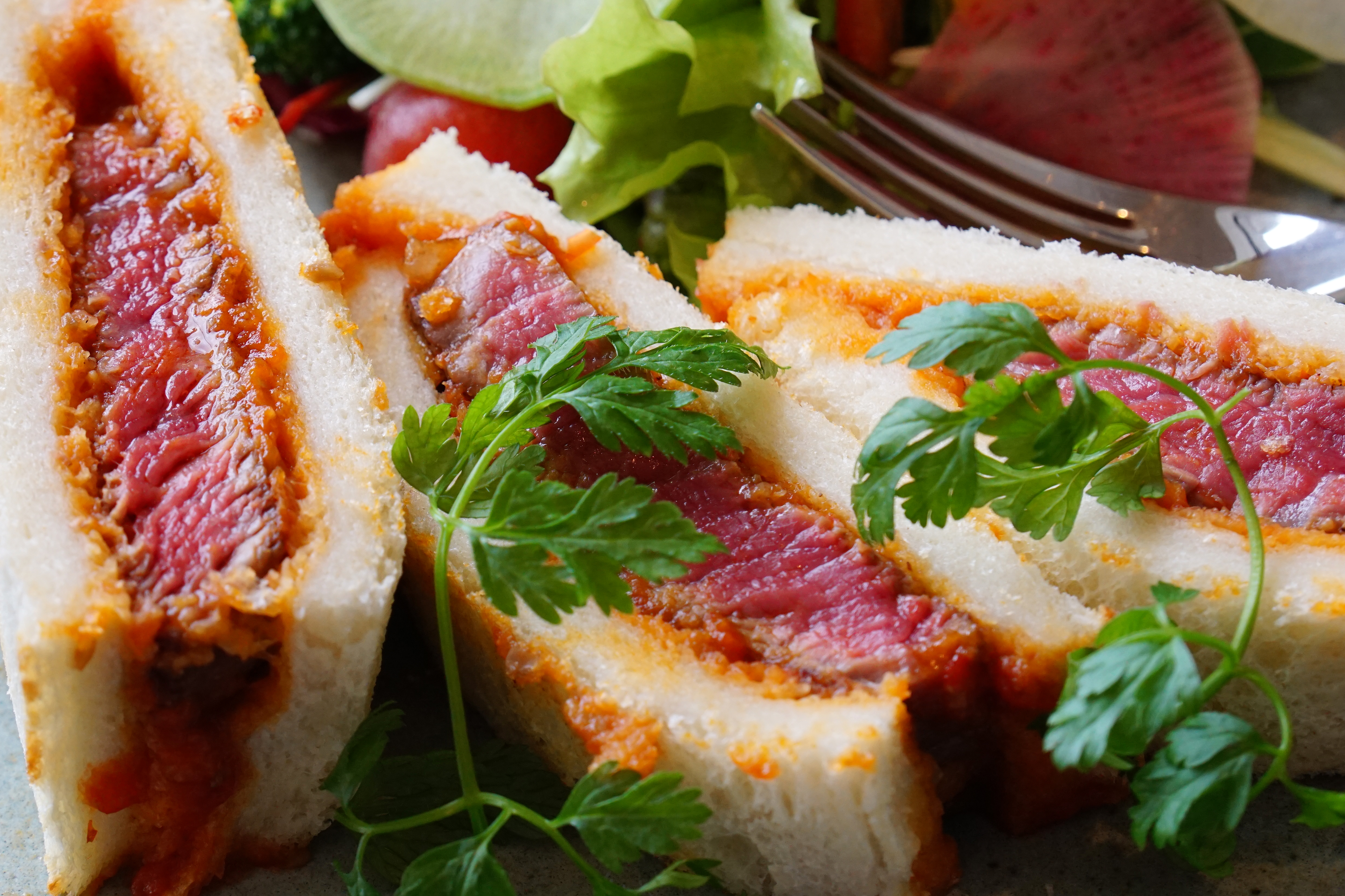 Tajima Beef Steak Sandwiche at HOTEL LA SUITE KOBE HARBORLAND Kobe, Hyogo prefecture, Japan